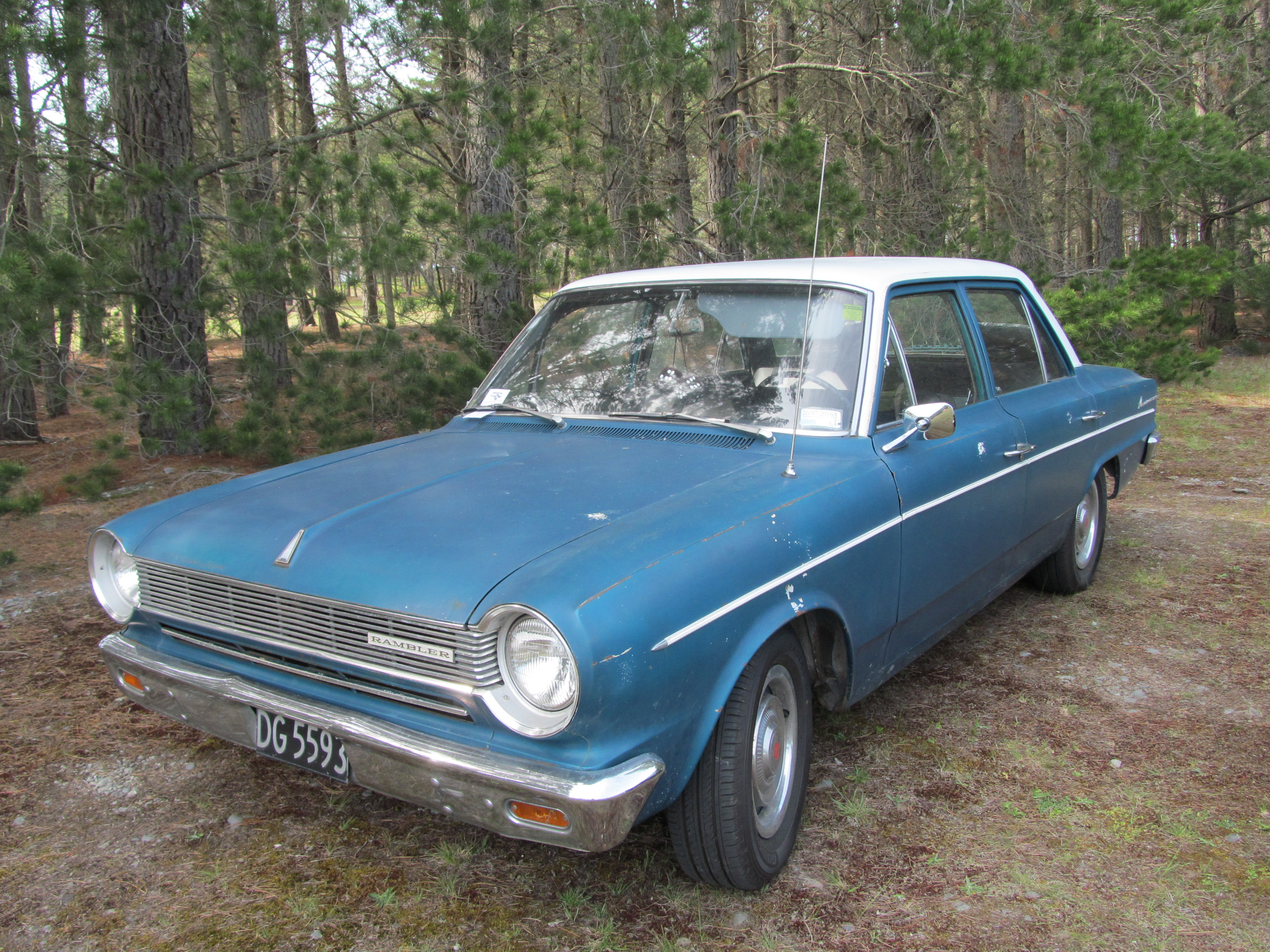 1964 Rambler American 220 Sedan photographed in Christchurch, New Zealand.